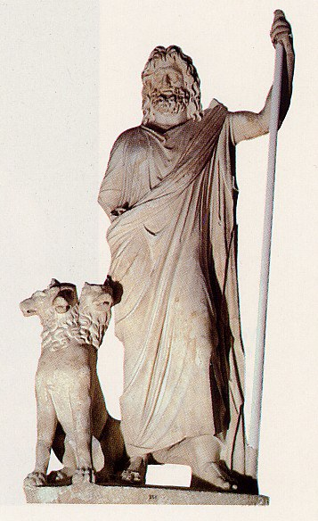 Statue of Hades with Cerberus